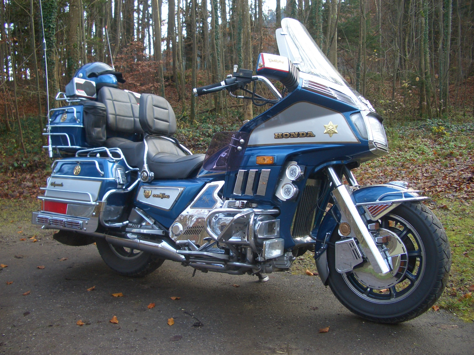 Motorcycle Honda SC14, Goldwing GL 1200, Fulldresser hubbaz